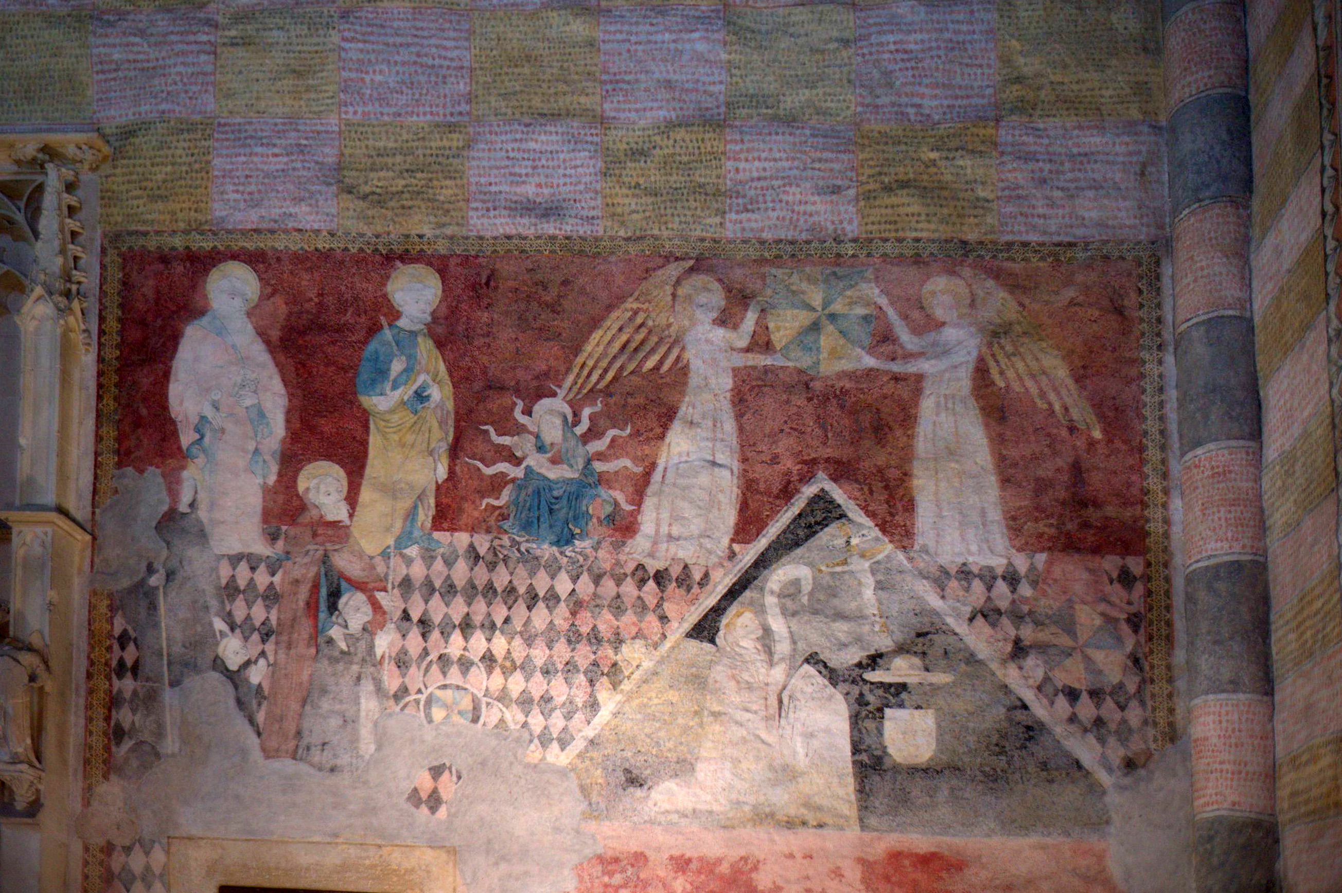 Romainmôtier, Vaud, Switzerland: wall painting in the church